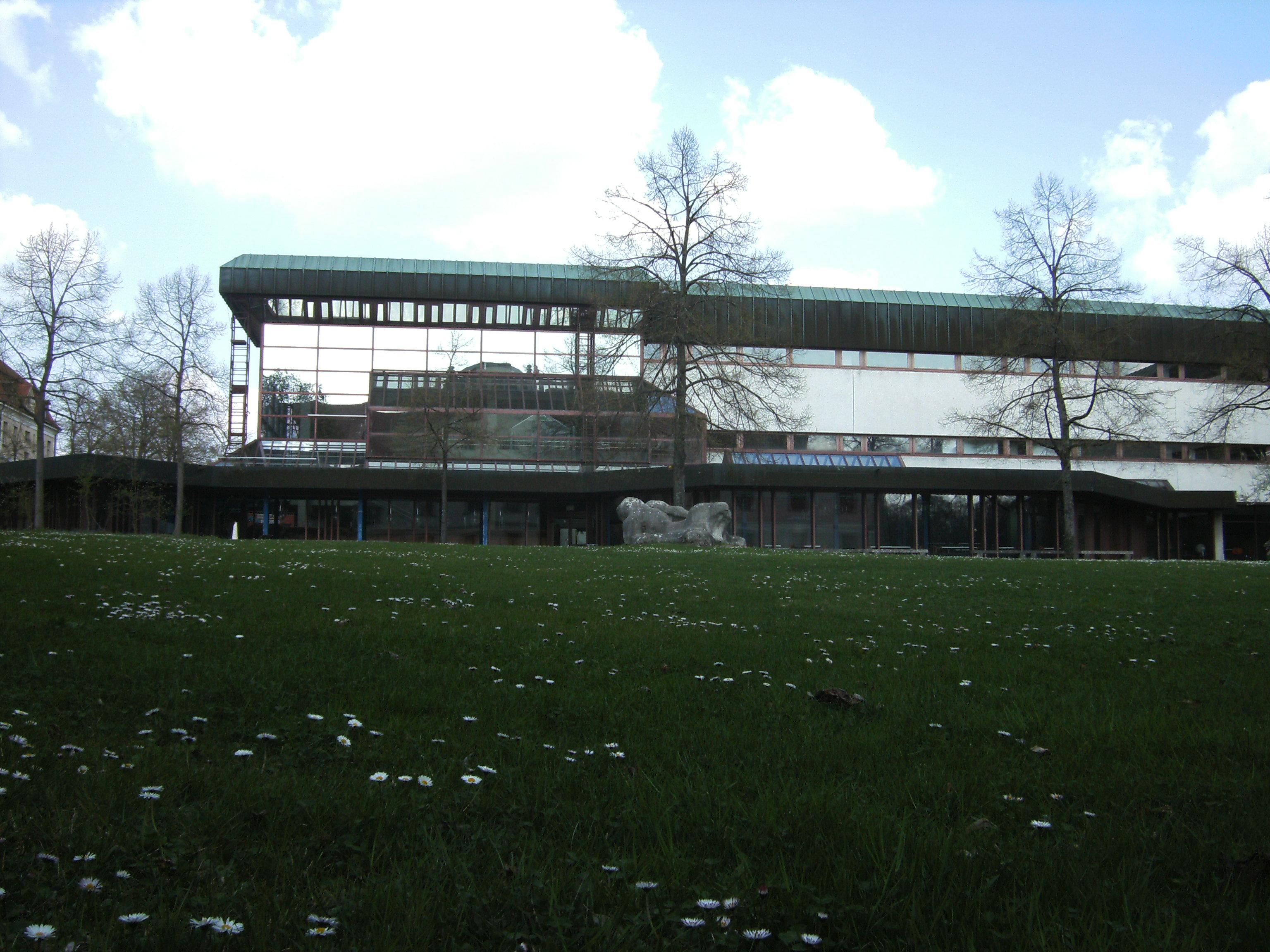 Building of the Educational School